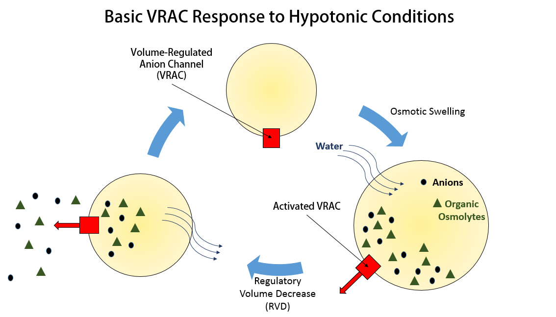 This was created to show the process of a Volume-Regulated Anion Channel (VRAC) during a cell's Regulatory Volume Decrease (RVD).